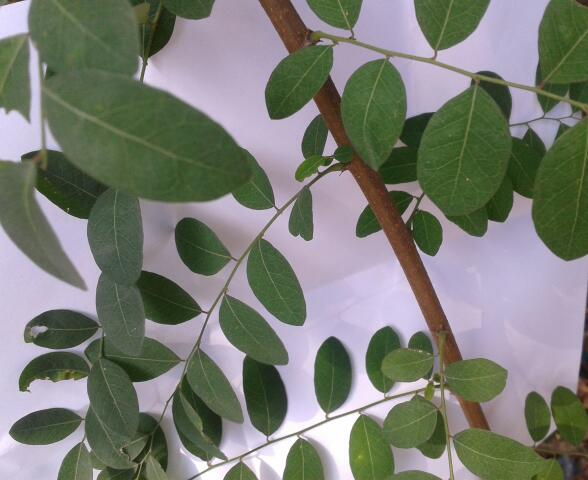 Phyllanthus reticulatus (Black-berried featherfoil), native to Indian subcontinent etc ., Tamil name : KARU NELLI "black Indian goose berry". Fruiting and flowering season of plant is from July to March. Leaves of Phyllanthus reticulatus - a different angle . Shot in Chennai (Tamilnadu, India) 4.5 kms off sea-shore; Latitude 13°02'20" N, Longitude 80°13'43" E; Elevation from sea level - 6.7 m ಕನ್ನಡ: ಕರಿಹುಳಿ (Karihuli )